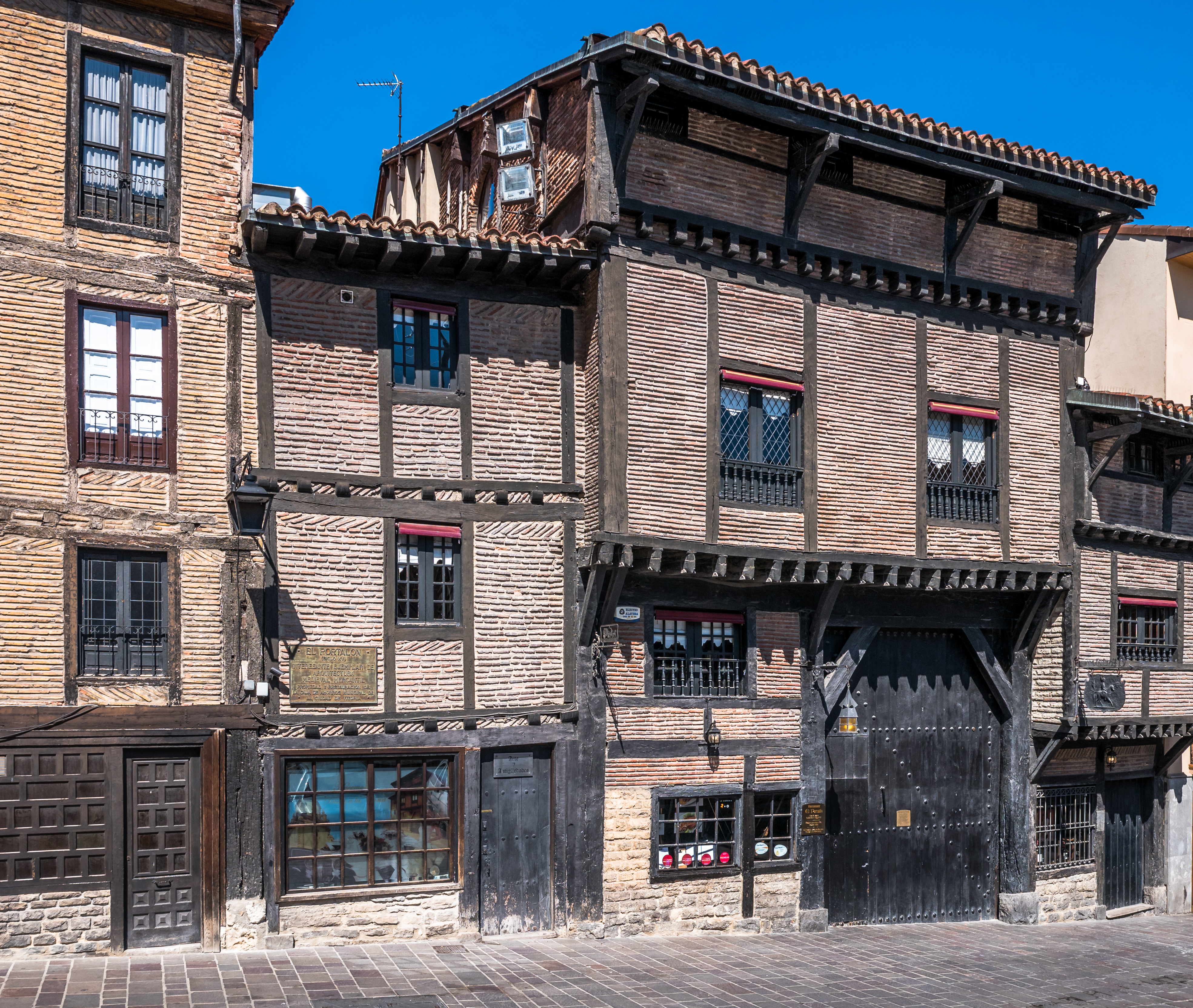 Building "El Portalón" in Vitoria-Gasteiz, Basque Country, Spain